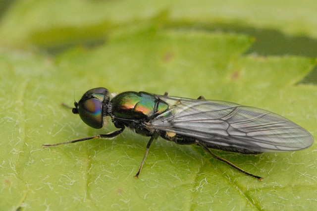 Sargus iridatus from Commanster, Belgian High Ardennes .